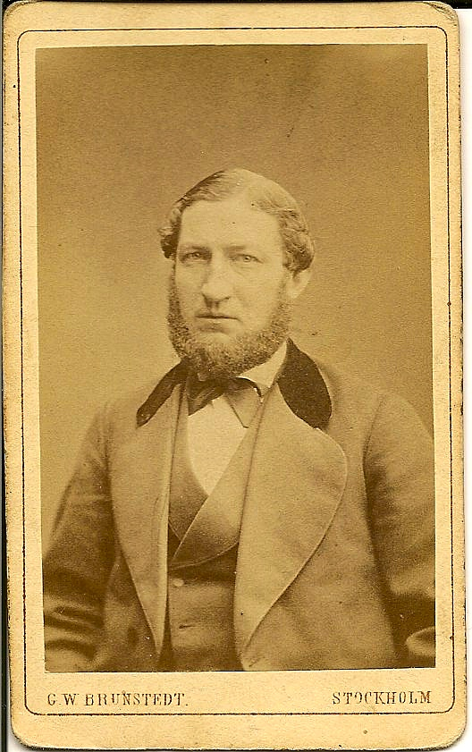 Swedish politician from late nineteenth century